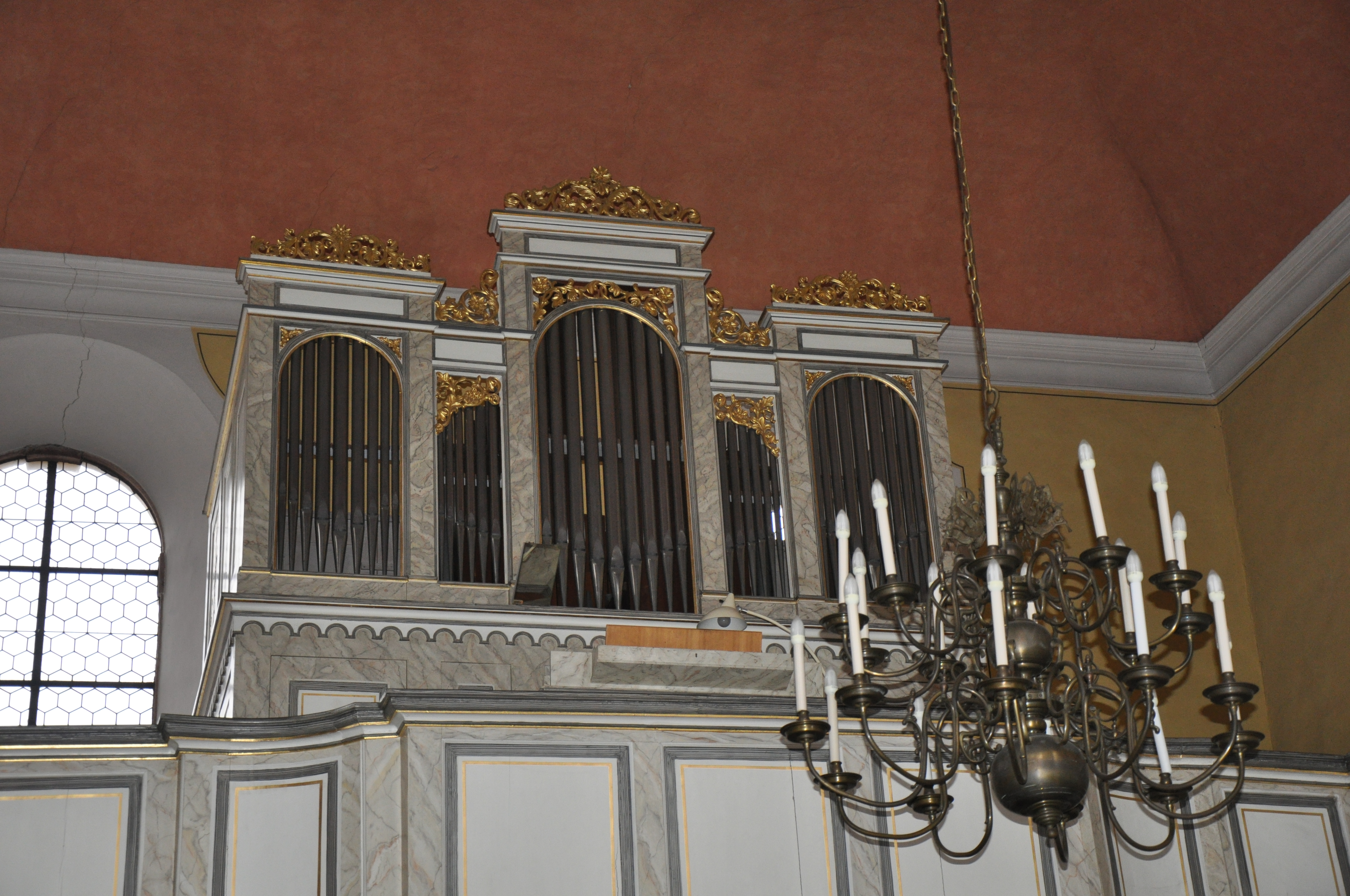 Laurentiuskirche (Dirmstein) Dirmstein